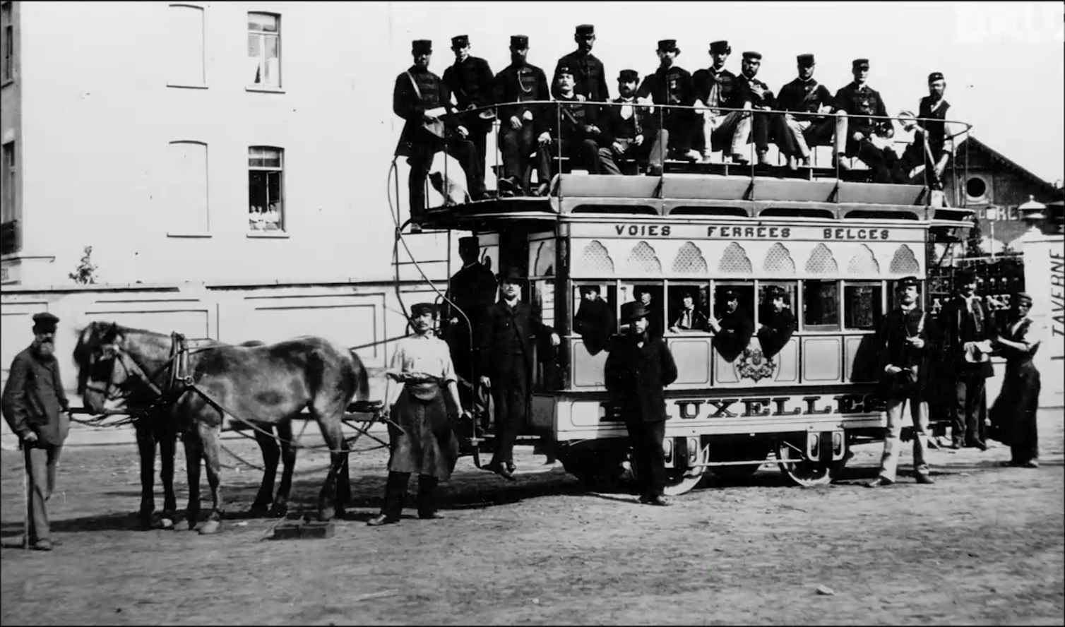 Photograph of the first type of horse drawn tram used in Brussels near the tram depot of Ter Kamerenbos/Bois de la Cambre. The Compagnie des voies ferrées belges ("Morris & Sheldon") was created in 1868 and ceased functioning in 1880. Most of these "Chevaline" type trams were modified within 10 years of being put into service. The Tram Museum preserves the Chevaline 7 in its original state.